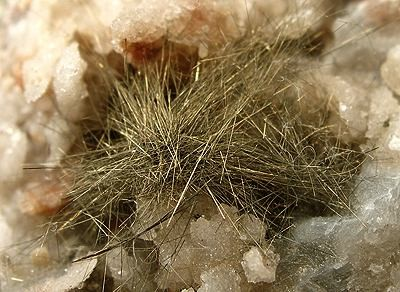 Millerite, Quartz Locality: US 27 roadcut, Halls Gap, Lincoln County, Kentucky, USA (Locality at ) Size: 4.0 x 3.5 x 3.0 cm. This is a very nice miniature of classic Halls Gap millerite, from a now-inaccessible location closed to further collecting visits (though I got there as a kid, before they closed it off). This specimen features a very rich nest of acicular millerite crystals in a quartz- lined geode, typical for the locality (when digging, you would look for geodes in slightly green, or nickel-rich, rock layers). Bill obtained this specimen from the Carlton Davis collection and I can say this is the first millerite specimen I ever saw, when Carl taught me about minerals in the mid-1980s. Ex. Bill Pinch and Carlton Davis Collections.